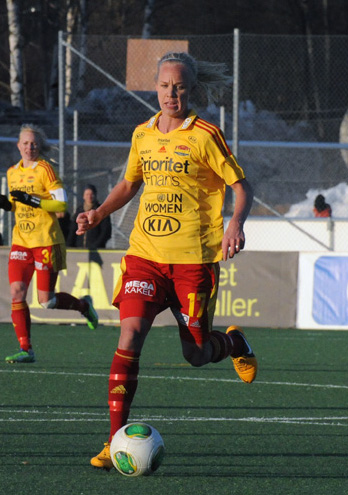 Caroline Seger during the 2013 Svenska Supercupen on 1 April 2013.